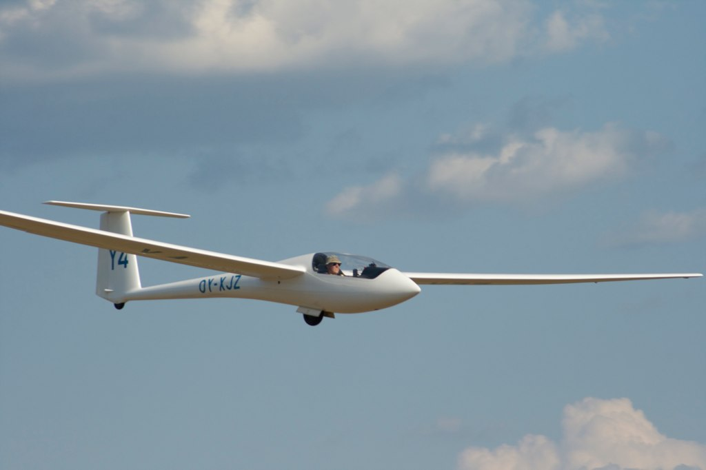 Schleicher ASW 19B glider (OY-XJZ) in 2009 Junior World Gliding Chamionships at Räyskälä Airfield in Loppi, Finland.